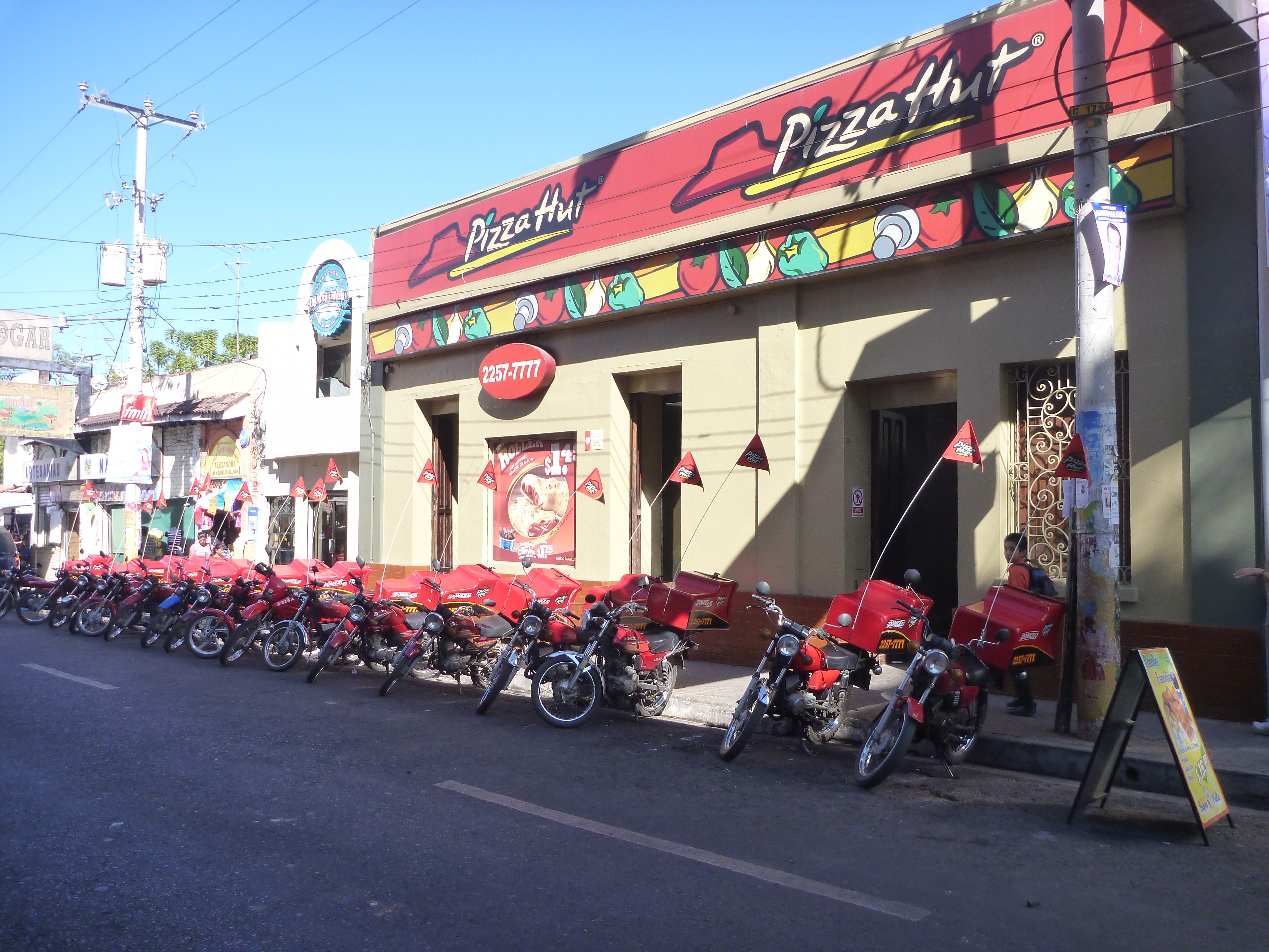 Pizza Hut location in Santa Ana (El Salvador)